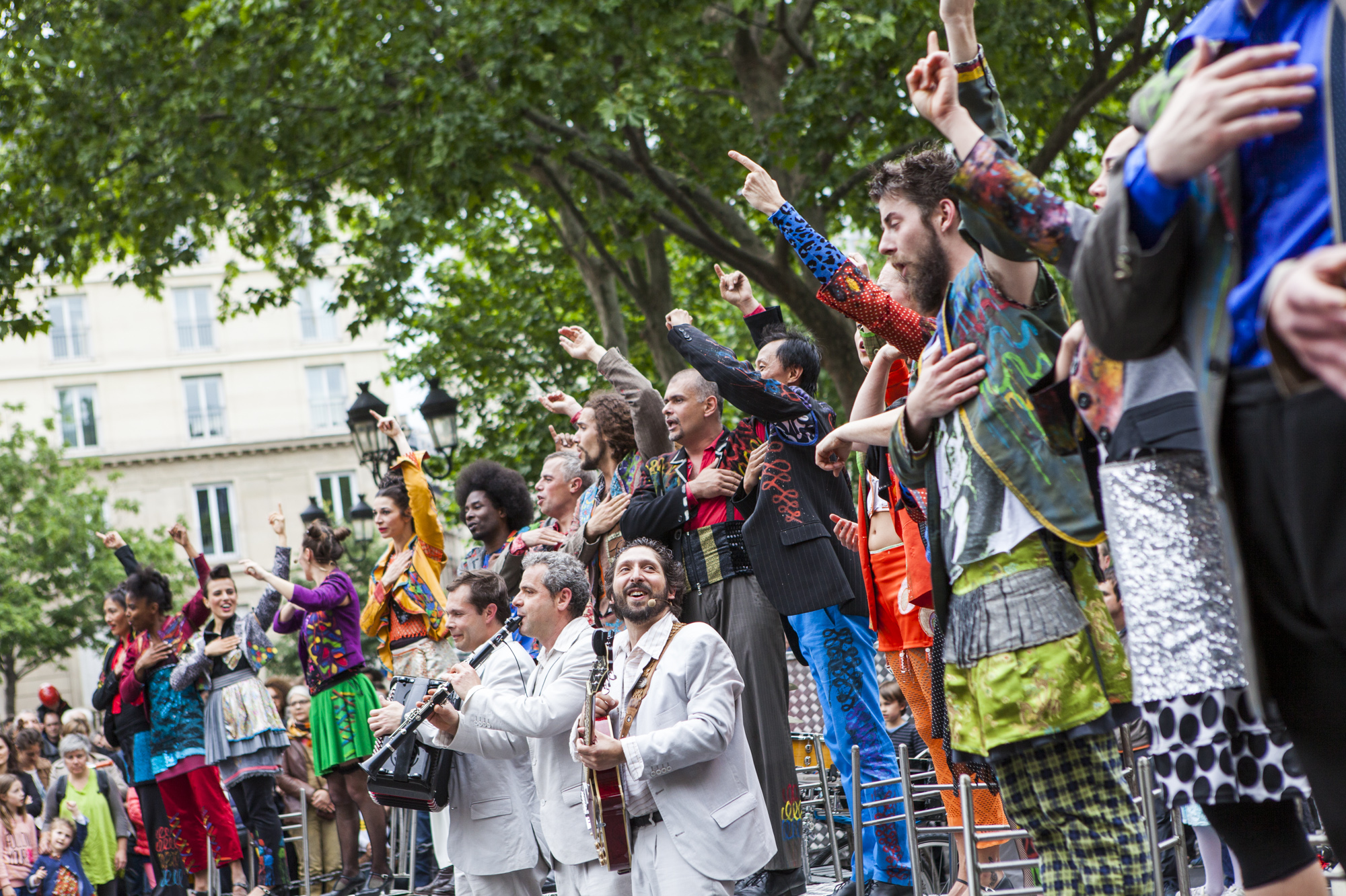 Festival Onze Bouge 2014 (Paris, boulevard Voltaire)